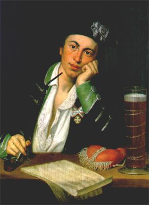 Portrait of Joseph Martin Kraus as a student at Erfurt university